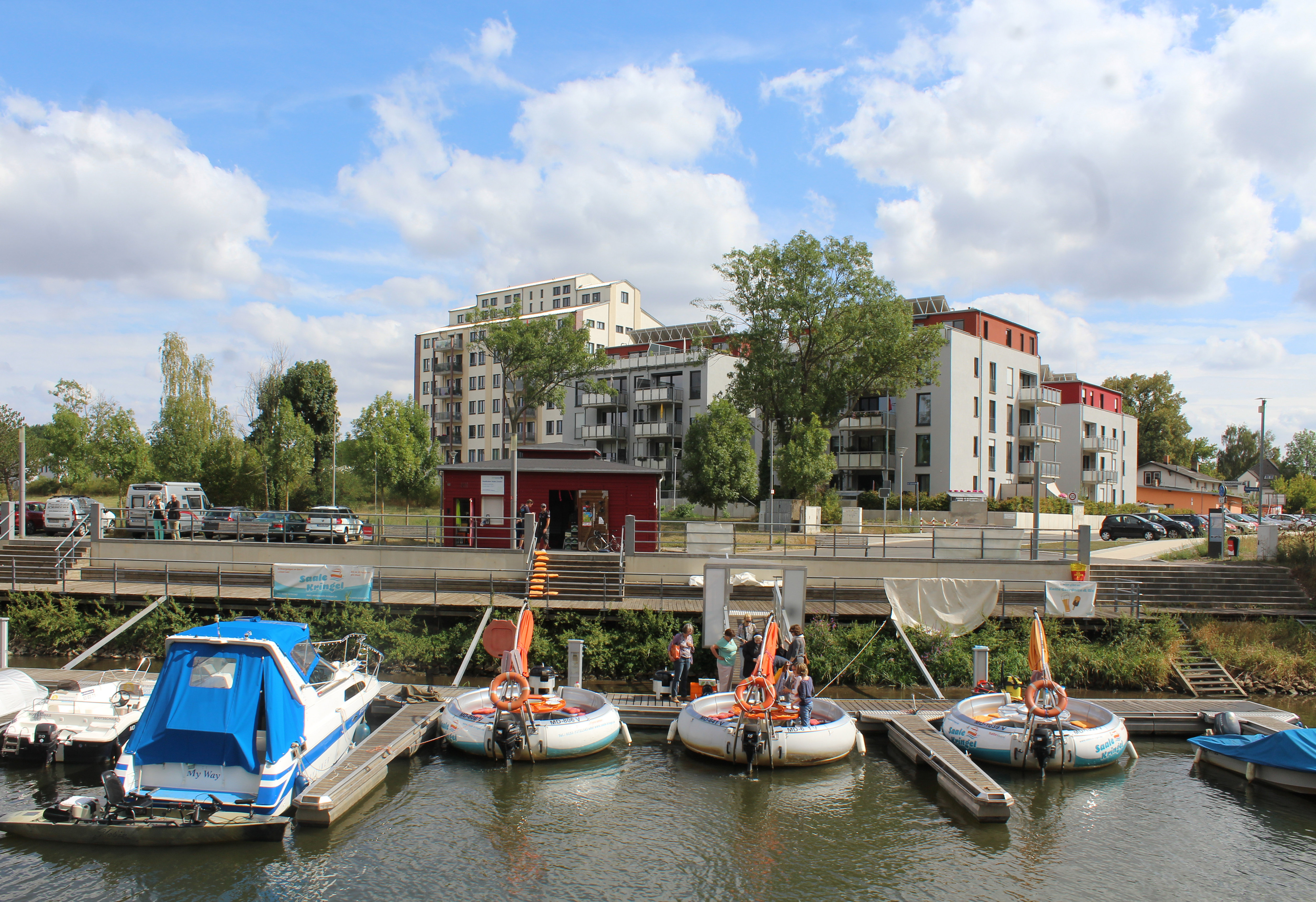 Halle (Saale), the Sophienhafen